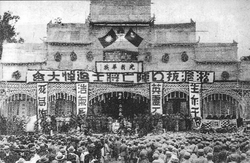 Remembrance service for Chinese troops fallen in the Battle of Shanghai (1932)